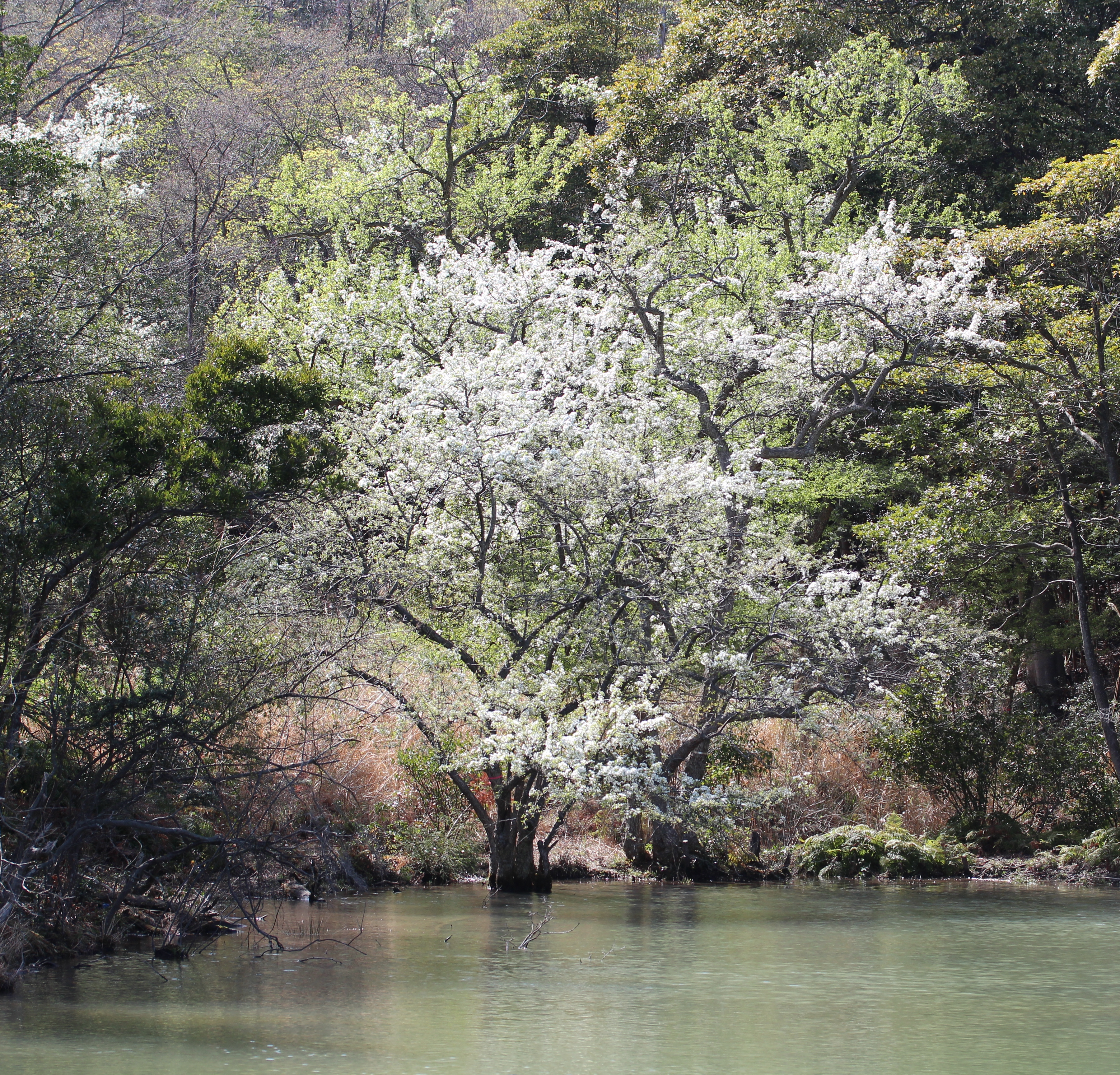 Callery pear (Pyrus calleryana Decne.) and pond (Midorigaike) in Mount Tado, Yōrō Mountains, Kuwana, Mie, Japan.